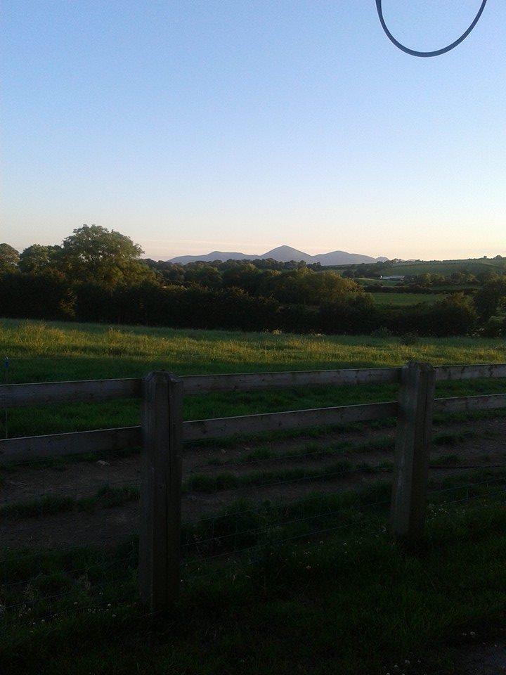 Morune Mountains, form the Coniamstwon road